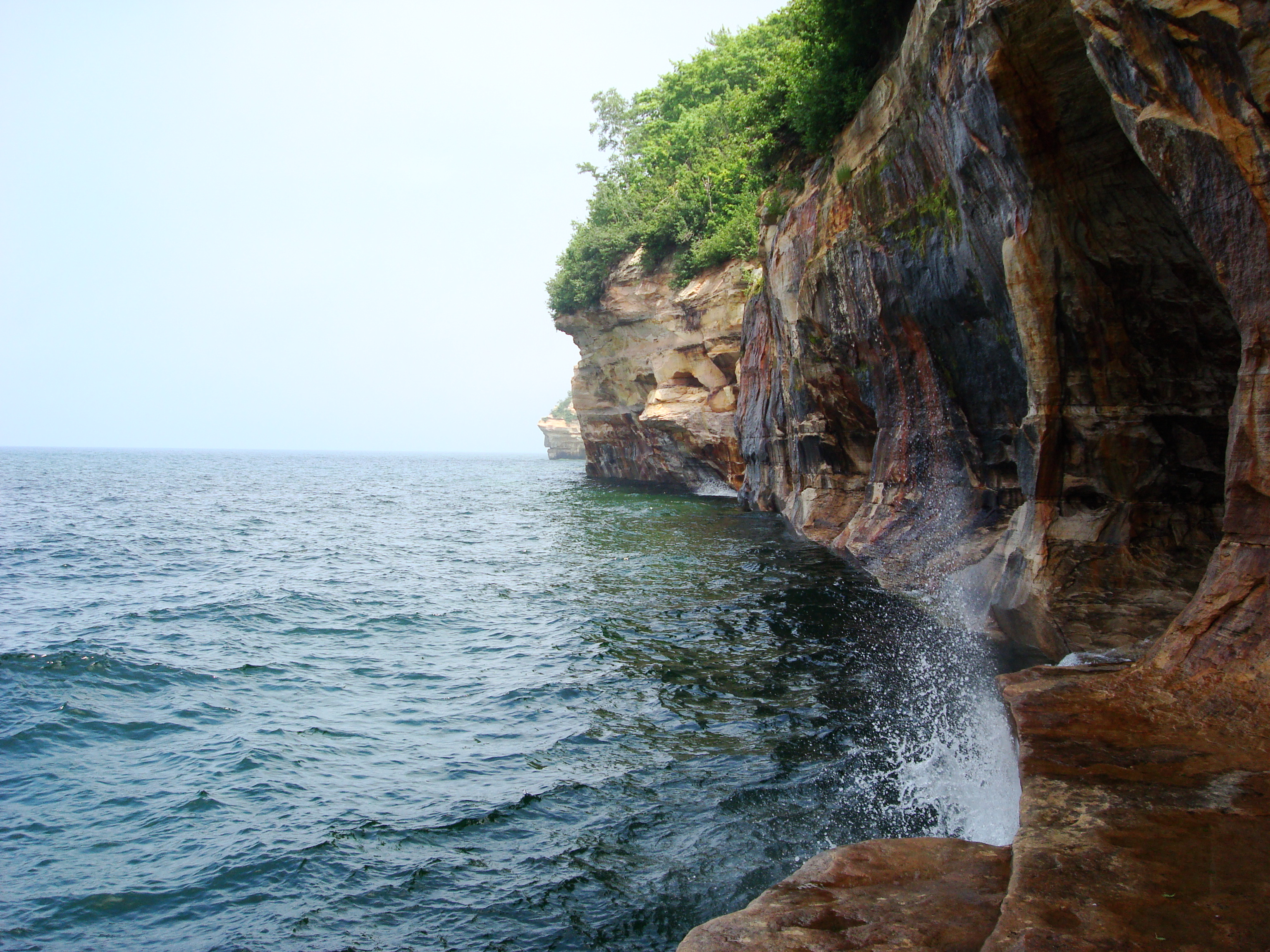 Cliffs near Mosquito River along the Pictured Rocks shorline.